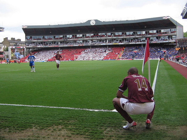 The last ever game at Highbury